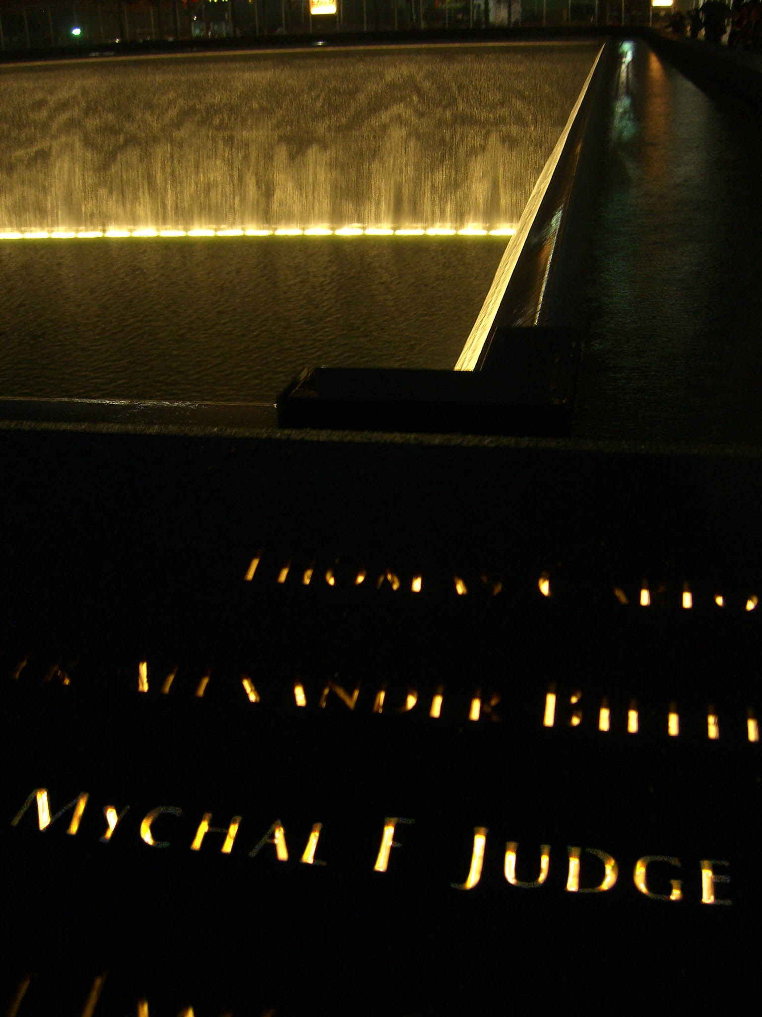 The name of Fire Chaplain Mychal Judge is seen among those of other first responders on Panel S-18 of the South Pool of the National September 11 Memorial in Manhattan, as seen on December 6, 2011. This photo was created by Luigi Novi. If you have any questions, you can contact me by sending me an email or User talk:Nightscream